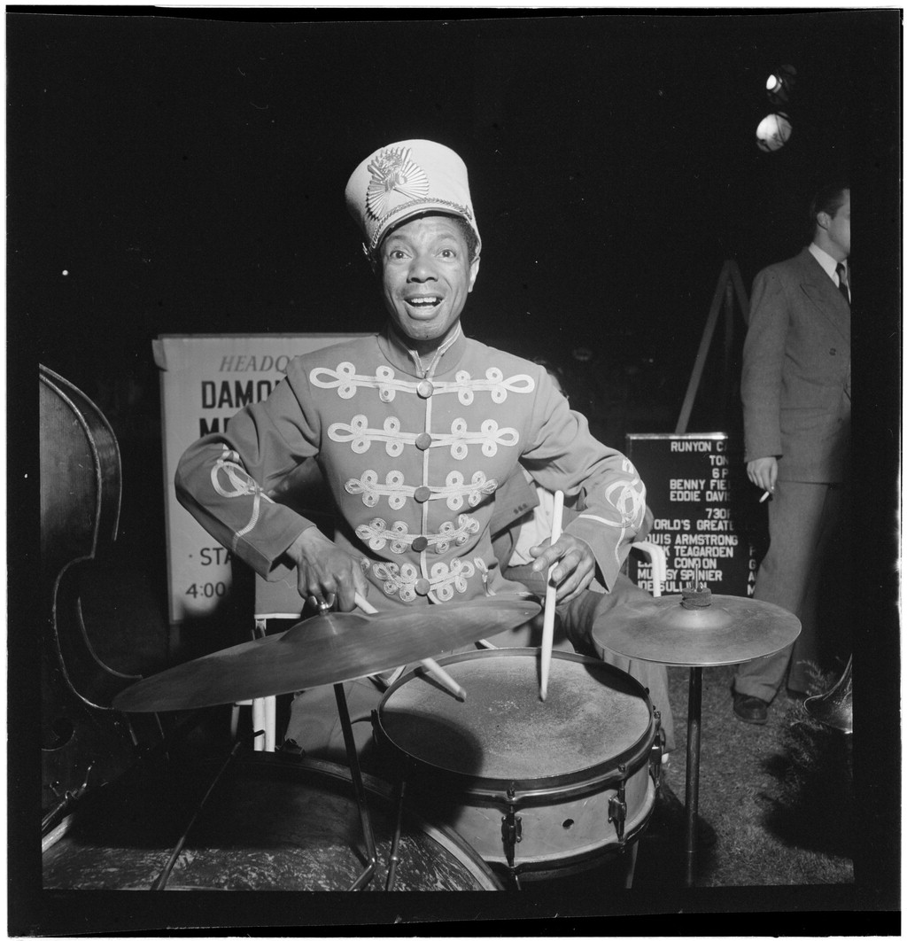 Joseph "Kaiser" Marshall (June 11, 1899, Savannah, Georgia - January 3, 1948, New York City) was an American jazz drummerGottlieb, William P., 1917-, photographer. [Portrait of Kaiser Marshall, Times Square(?), New York, N.Y., ca. July 1947] 1 negative : b&w ; 2 1/4 x 2 1/4 in. Caption from Down Beat: Jazz parade: jazz vs. cancer Notes: Gottlieb Collection Assignment No. 265 Reference print available in Music Division, Library of Congress. Purchase William P. Gottlieb Forms part of: William P. Gottlieb Collection (Library of Congress). In: The Record Changer, v. 6, no. 6 (Oct. 47, 1947), p. 3. Subjects: Marshall, Kaiser Art Hodes River Boat Jazz Band Jazz musicians--1940-1950. Drummers (Musicians)--1940-1950. Format: Portrait photographs--1940-1950. Film negatives--1940-1950. Rights Info: Mr. Gottlieb has dedicated these works to the public domain, but rights of privacy and publicity may apply. Repository: (negative) Library of Congress, Prints & Photographs Division, Washington D.C. 20540 USA, (reference print) Library of Congress, Music Division, Washington D.C. 20540 USA, Part Of: William P. Gottlieb Collection (DLC) 99-401005 General information about the Gottlieb Collection is available at Persistent URL: Call Number: LC-GLB23- 0610